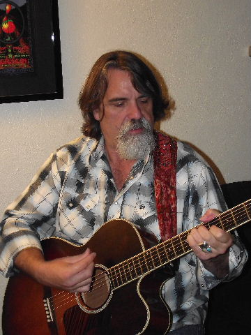 Darrell Scott warming up before a performance at Cactus Cafe in Austin, Texas. Photo by Ron Baker (2011).